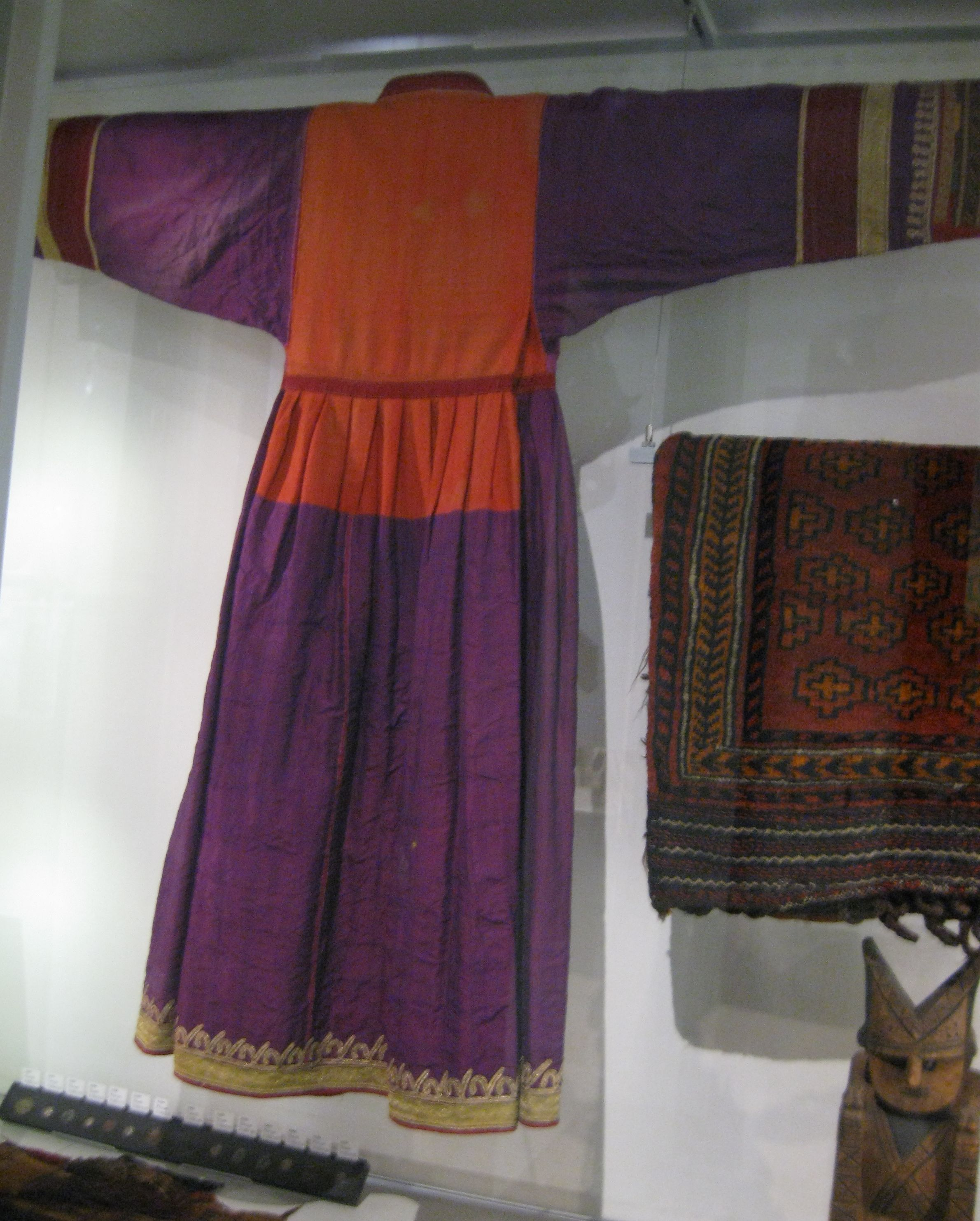 This is a traditional Baluchi or Baloch woman's dress from Afghanistan. This dress was worn by a bride's mother at a wedding ceremony. This object was donated to the permanent collection of the UBC Museum of Anthropology in Vancouver, Canada, where its museum catalogue number is Ea4.